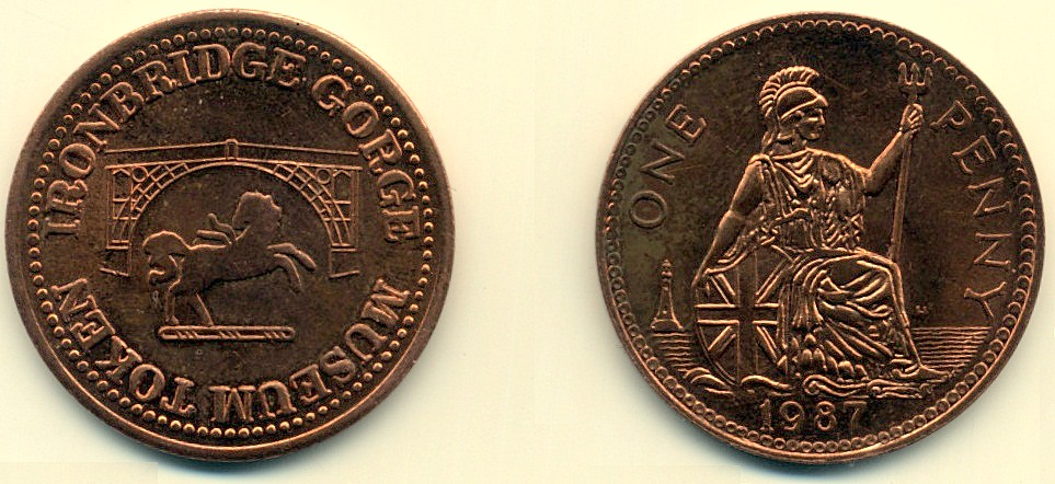 Blist's Hill Victorian Town Museum - Penny Token